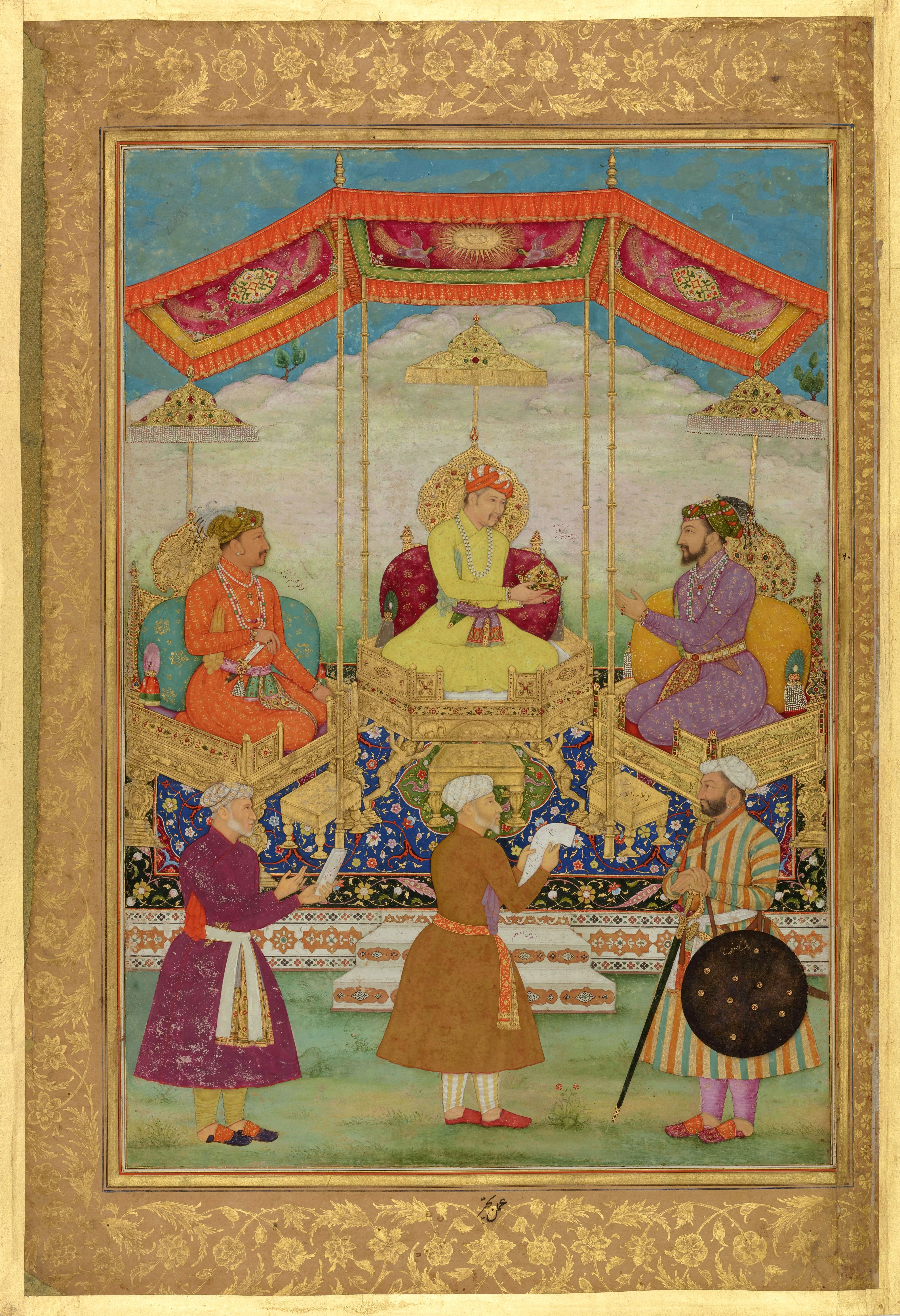 Bichitr. Akbar Hands His Imperial Crown to Shah Jahan. A page from Minto Album. 1631г. Chester Beatty Library, Dublin